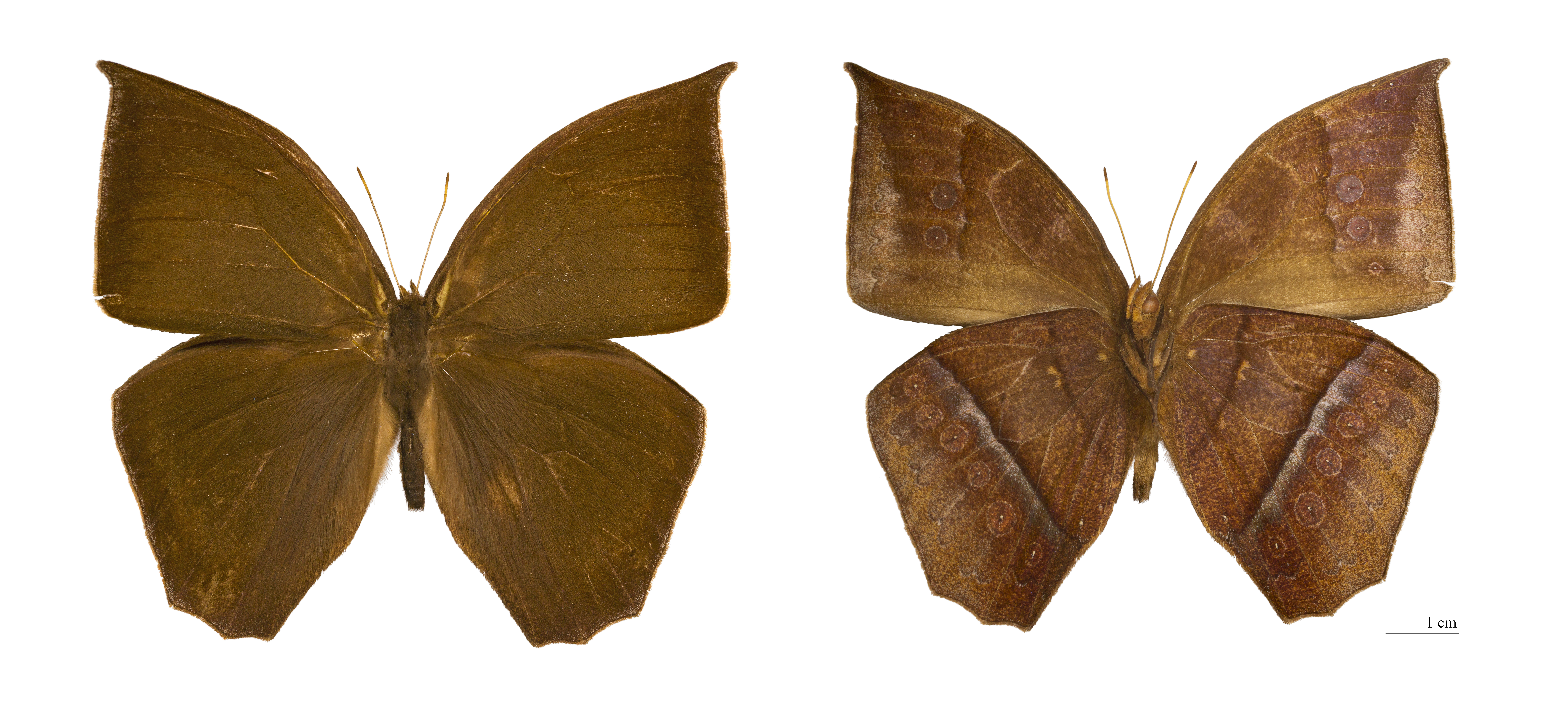 Male specimen - Two views of same specimen. Locality: Rio Natal, Santa Catarina, Brasil